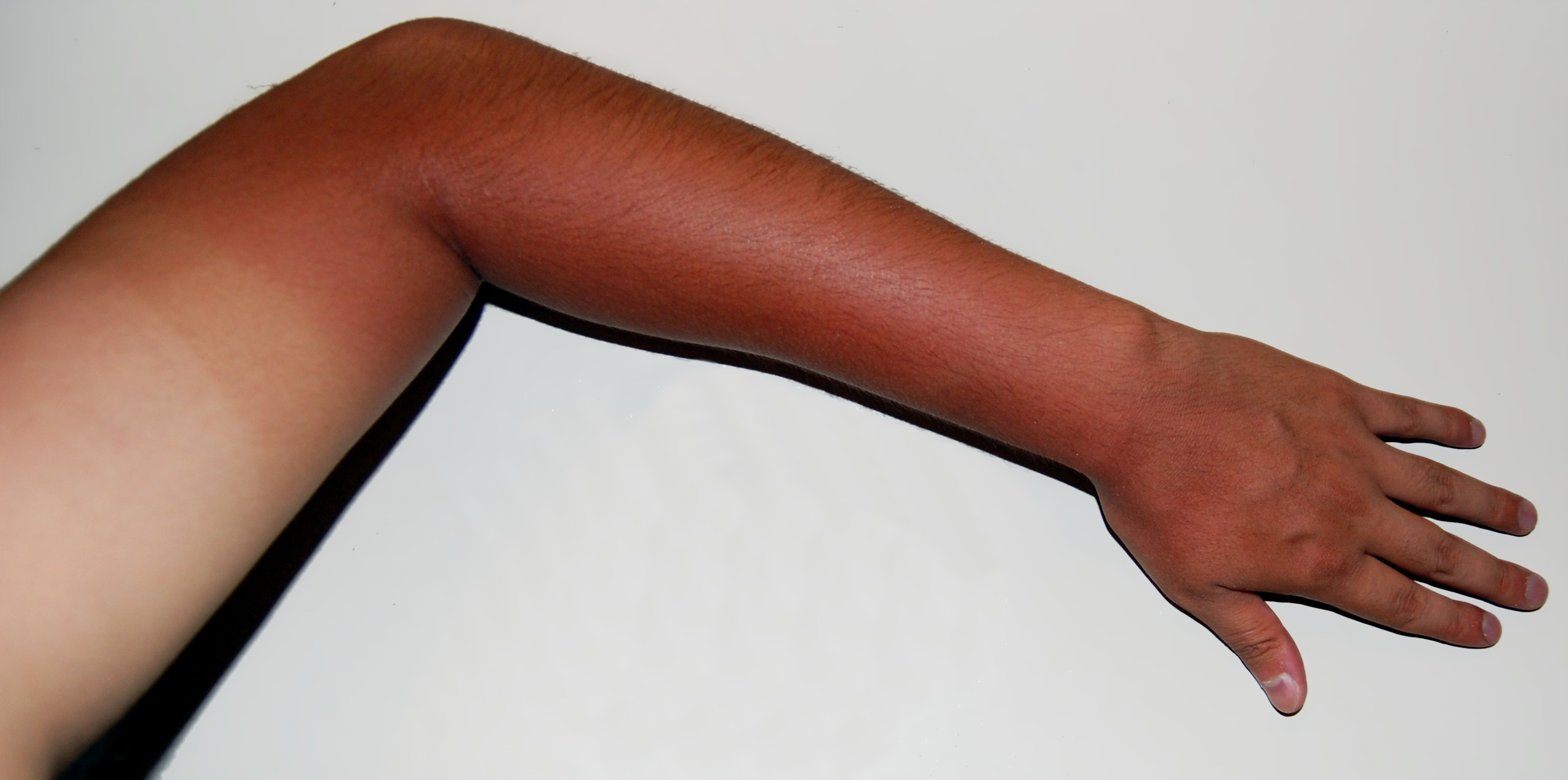 Tanned arm